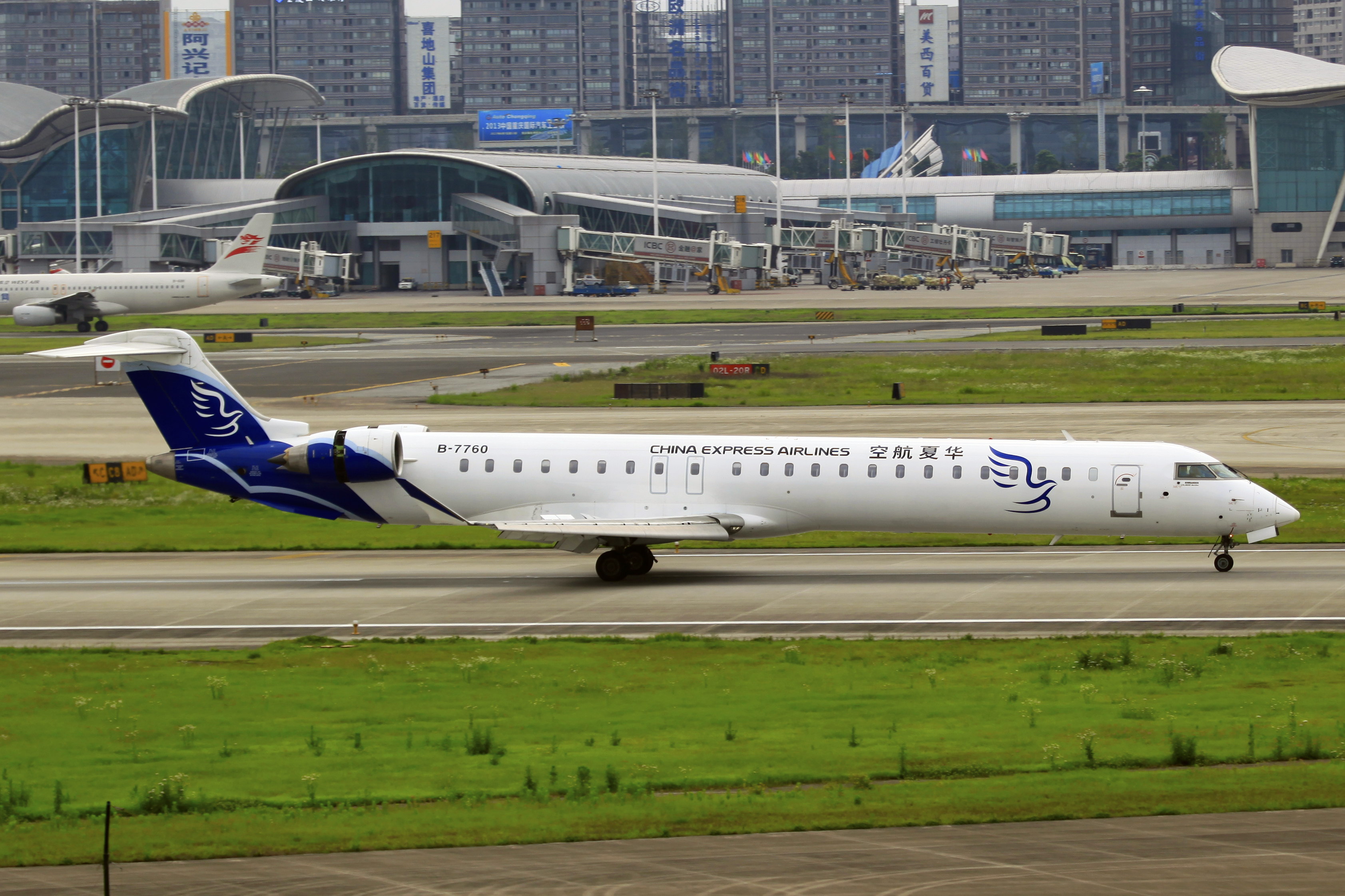 B-7760 | China Express Airlines | CRJ-900 | Chongqing Jiangbei International Airport [CKG]